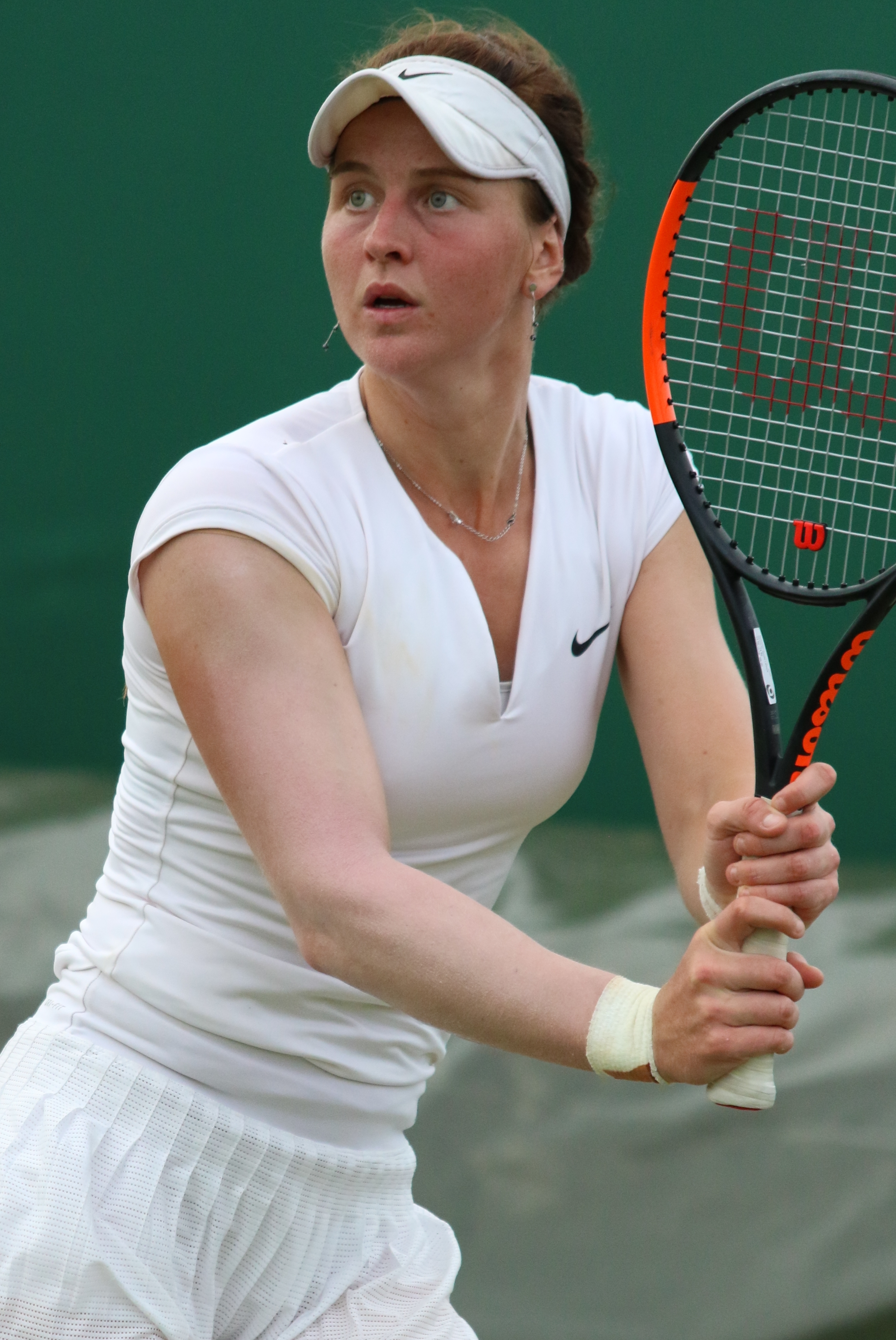 2019 Wimbledon Qualifying Tournament.